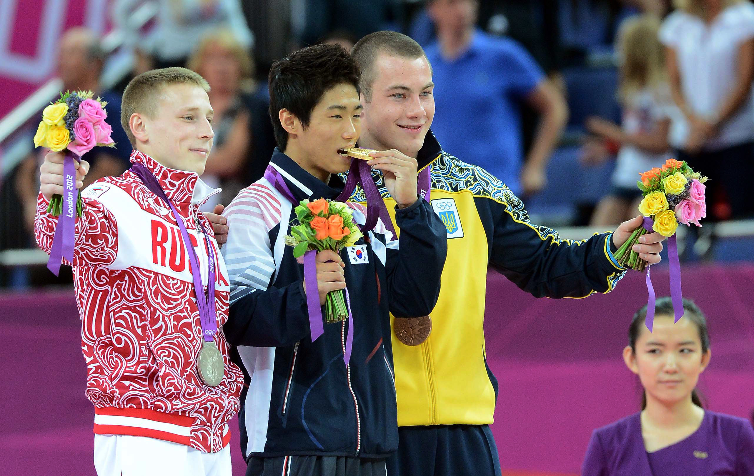 2012 London Olympic Games Korean gymnast Yang Hak-seon won the gold medal in men's vault at the London Olympics. 2012.08.07 Photo by Korean Olympic Committee Ministry of Culture, Sports and Tourism Korean Culture and Information Service 2012 런던 올림픽 남자 체조 도마 한국 대표 양학선 금메달 획득 사진제공 - 대한체육회 문화체육관광부 해외문화홍보원